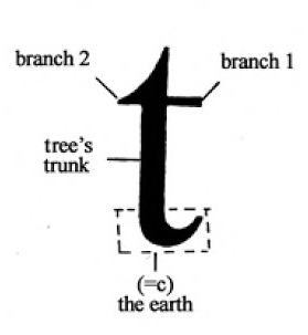 Diagram on page 41 of Analysis on the Ideographic Characteristics of Some English Morphemes.